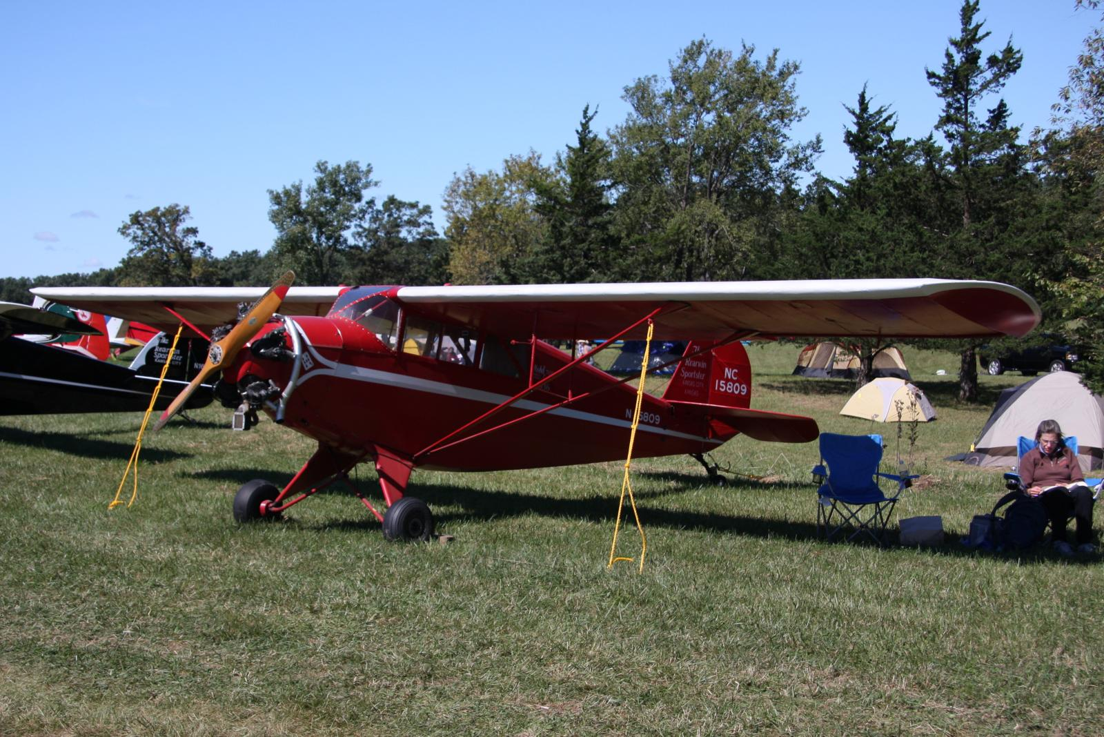 1936 Rearwin 7000 C/N 445